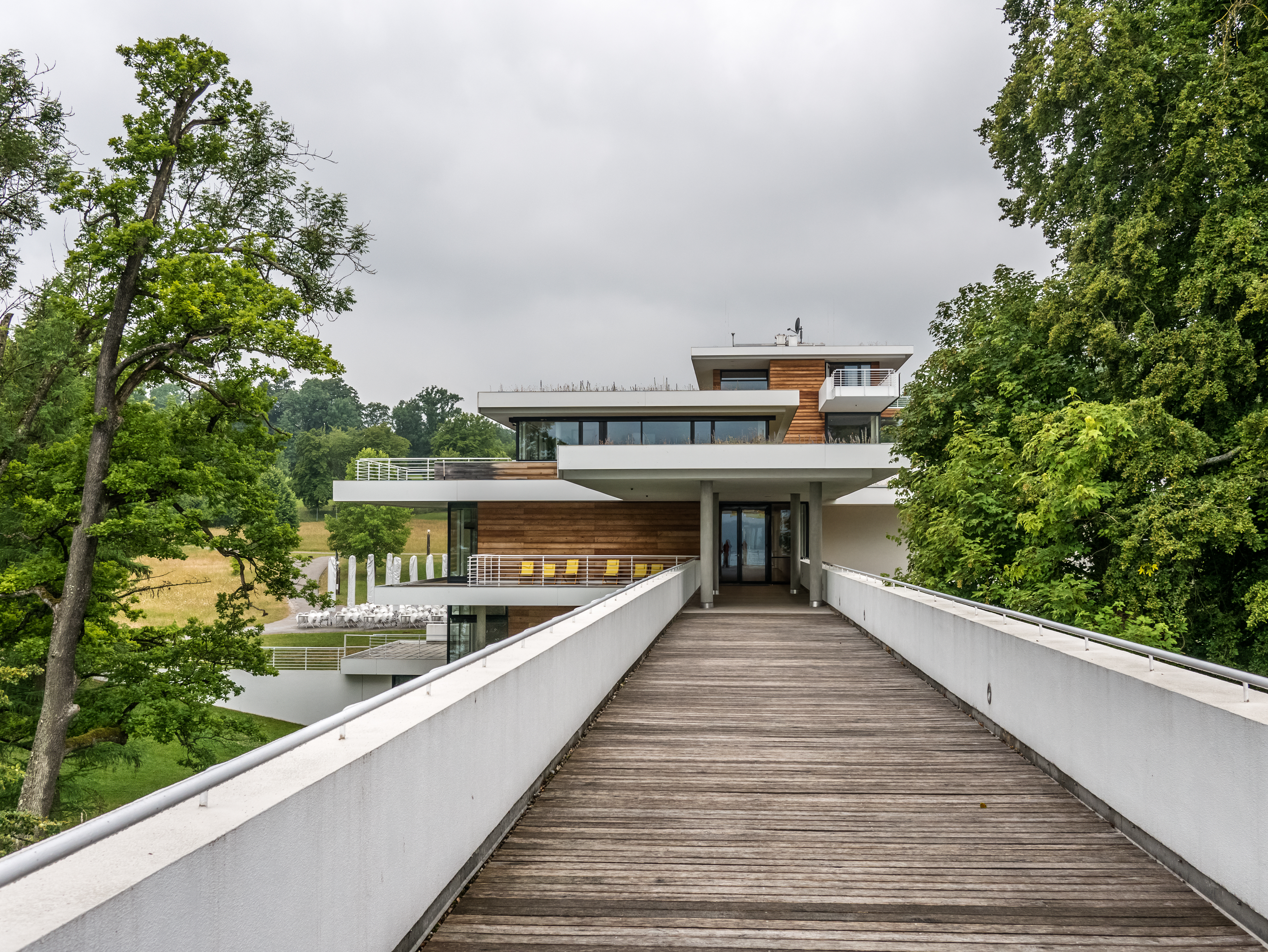 Museum of fantasy seen from the back